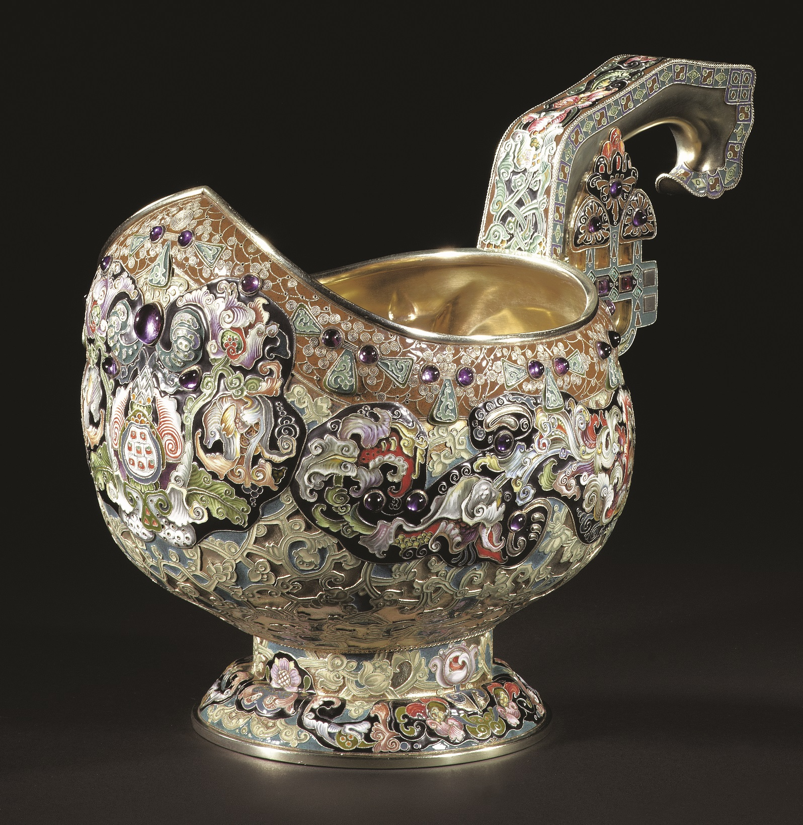 Large Kovsh from the Khalili Collection of Enamels of the World. Described at and in Haydn Williams, Enamels of the World: 1700-2000 The Khalili Collections, London 2009, cat. 259, pp. 367–9.